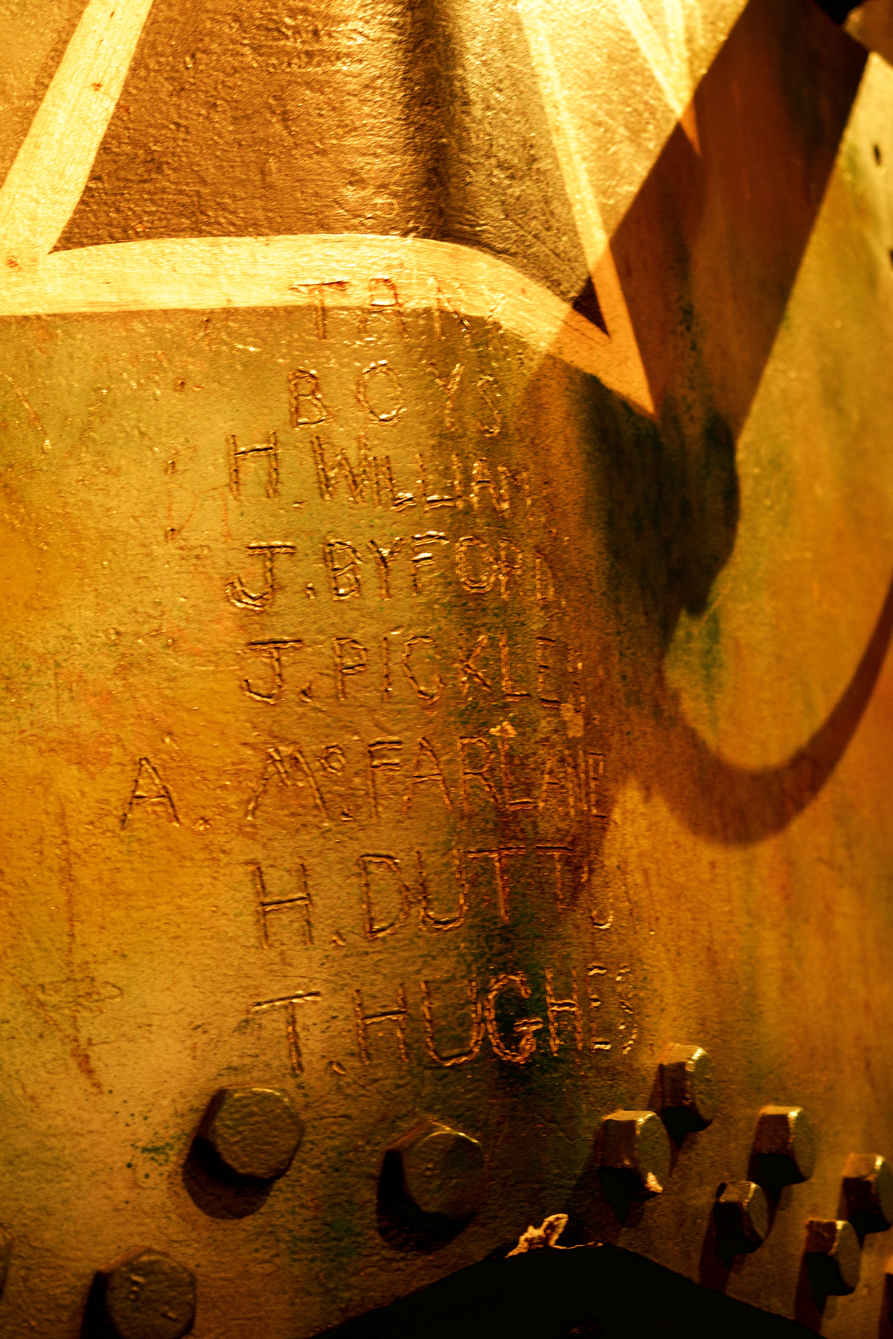 The names of Allied soldiers engraved into Mephisto's rear armour, probably during its stay at Poulainville. It is most likely that the men were from the British Tank Corps.